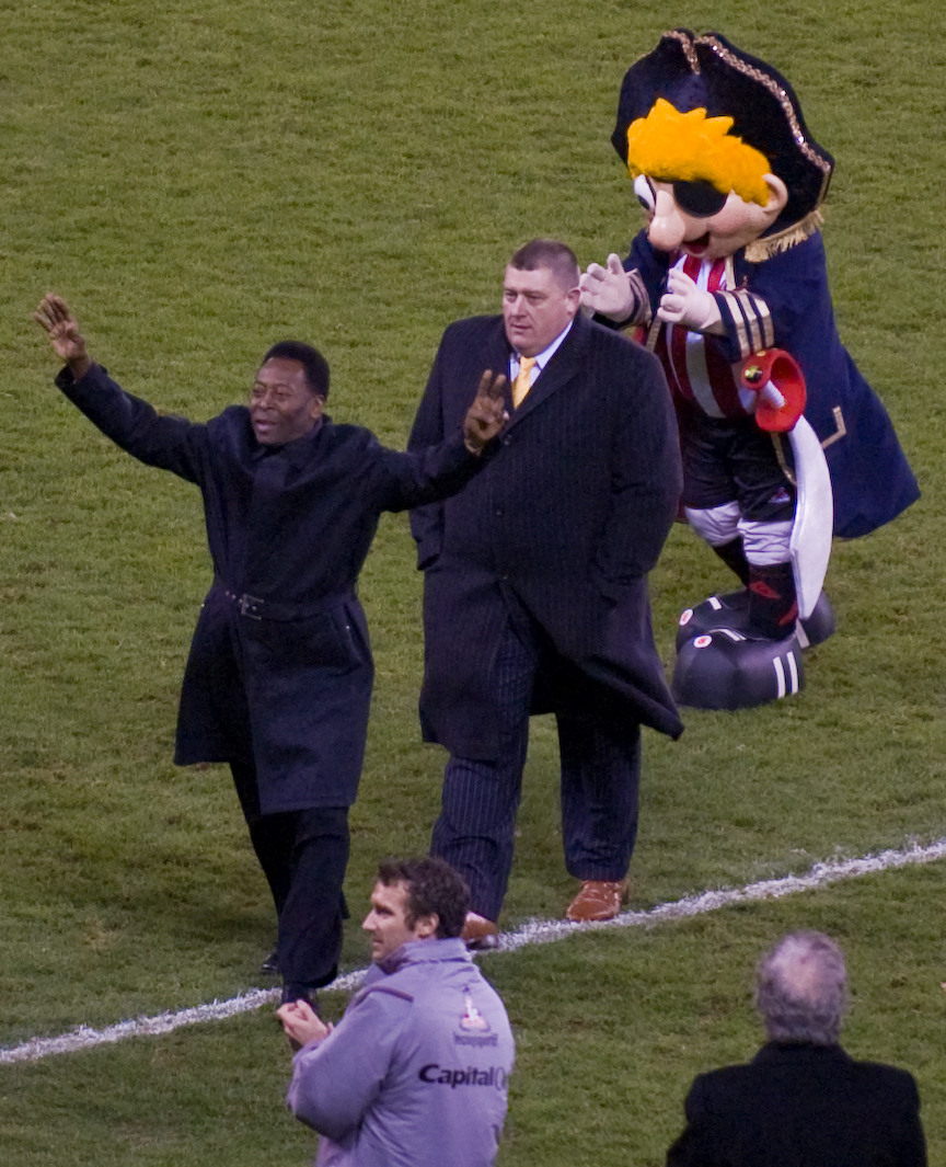 Pele at the Sheffield F.C. v Inter Milan game.